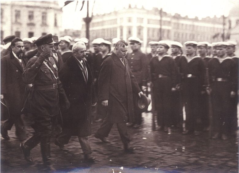 Ismet's visit to Leningrad 1932